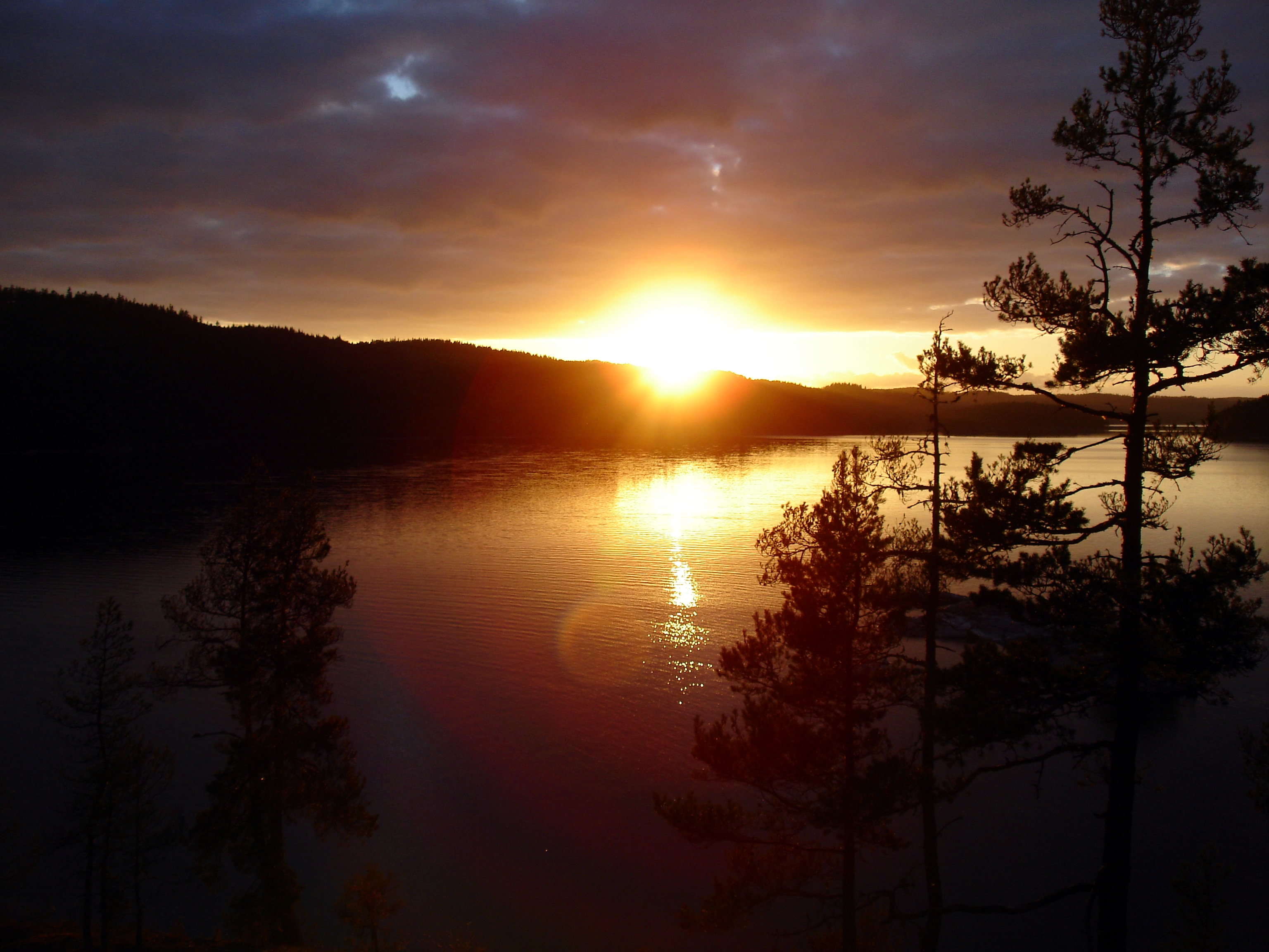 Sunset on Lake Foxen at the border Sweden-Norway in July 2005.